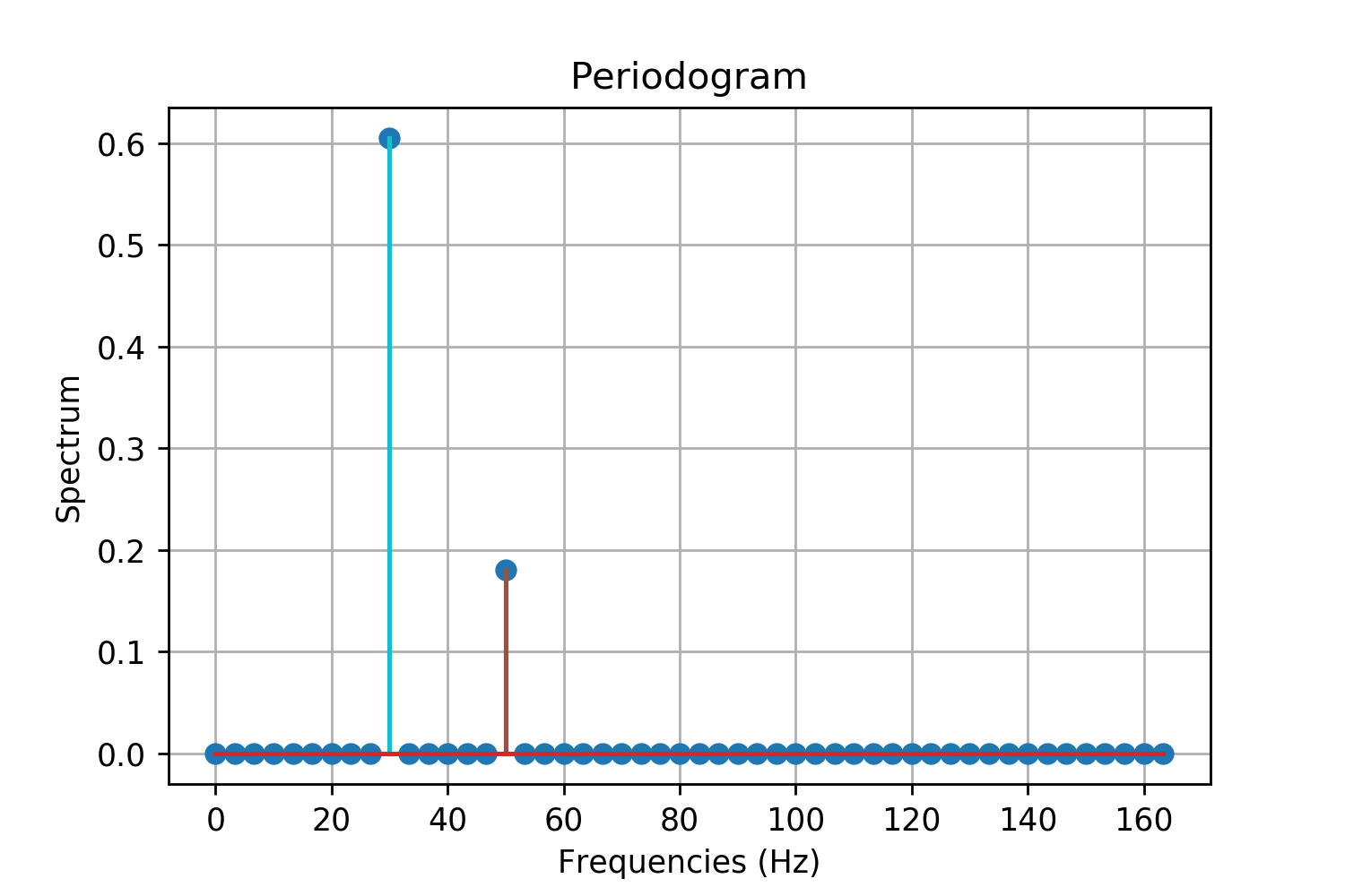 Developed using scipy.signal.periodogram.